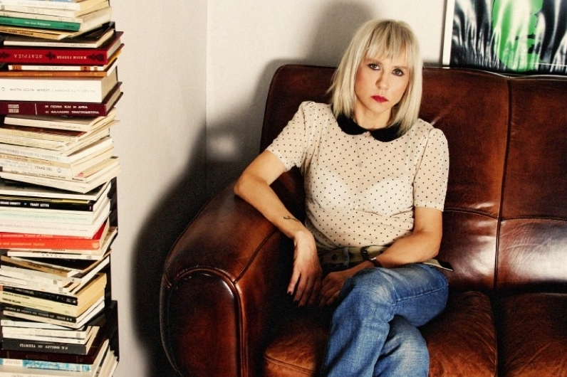 Soti Triantafyllou, greek writer